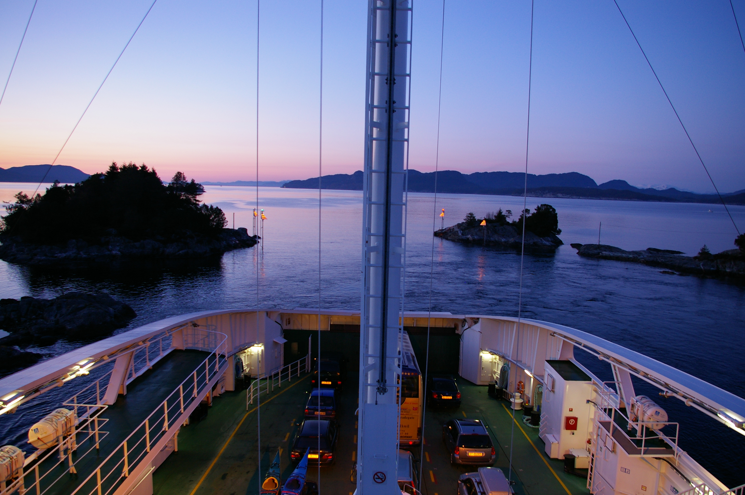 The ferry MF Bergenfjord at Sandvikvåg, Fitjar, Norway. Seen northwards.